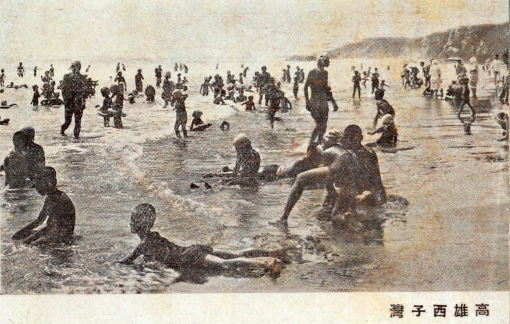 Cropped from File:Seishiwan 193406 Taiwan Fujinkai.jpg